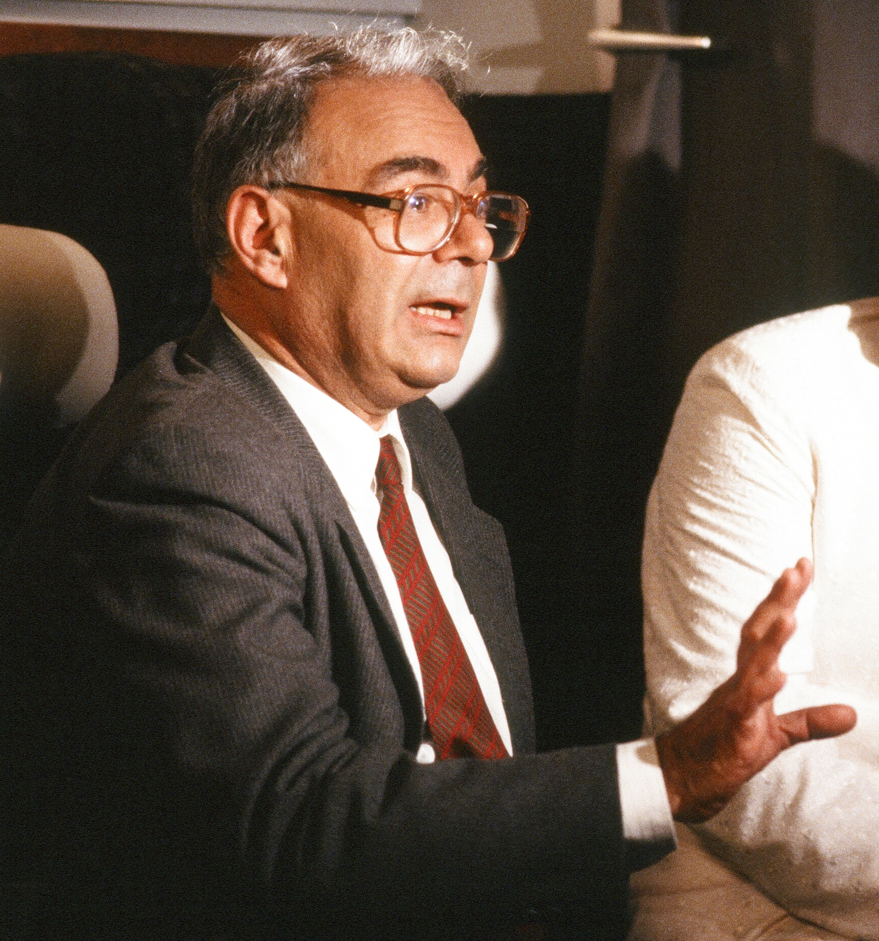 Rabbi Lionel Blue appearing in "John Wells and the Three Wise Men" in 1988, a television film produced by Open Media for Channel 4.